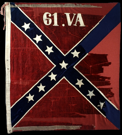 61st Virginia Volunteer Infantry Regiment Battle Flag, Wool bunting and cotton Appomattox Court House National Historical Park APCO 386; was carried by regiment in Major General William Mahones division